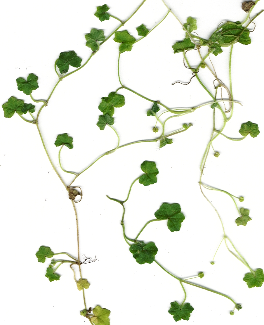 Hydrocotyle bowlesioides (plant). Location: Maui, Wailea